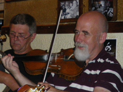 Photo of Paul Kelly, Irish musician, taken by me in Dublin, May 2010.